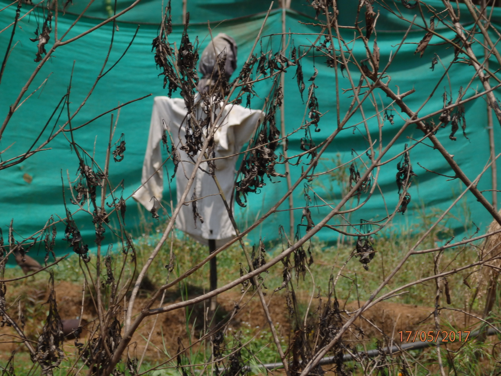 Scarecrow